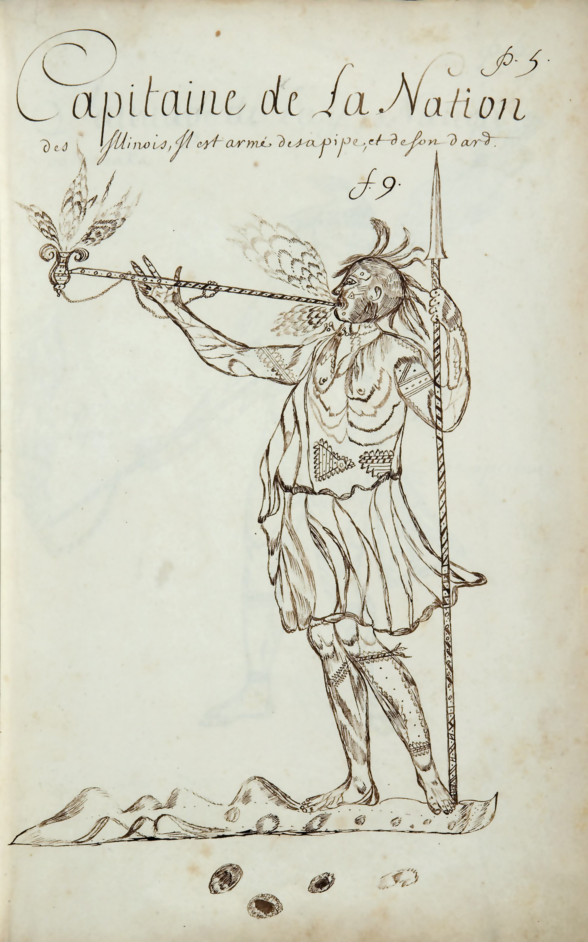 Captain of the Illinois Nation. He is equipped with his pipe and his spear.